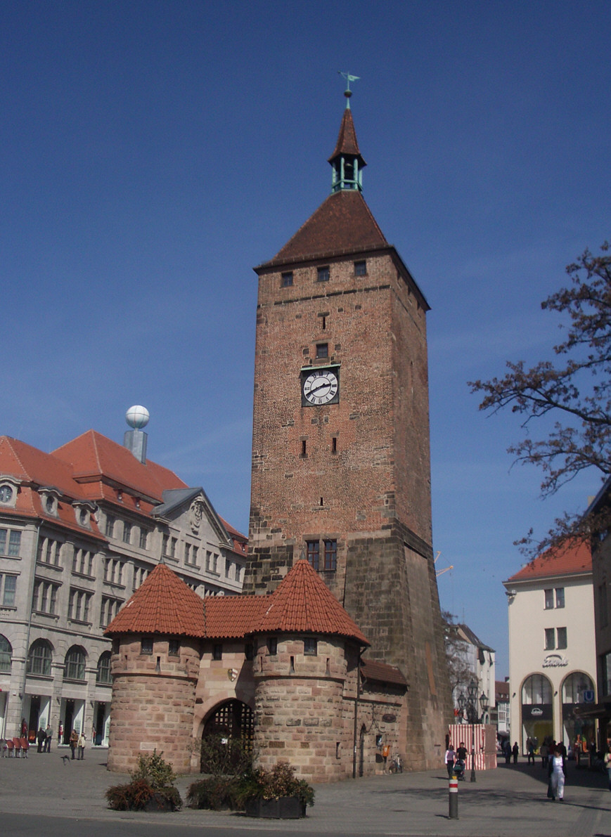 Nuremberg, Germany: White Tower